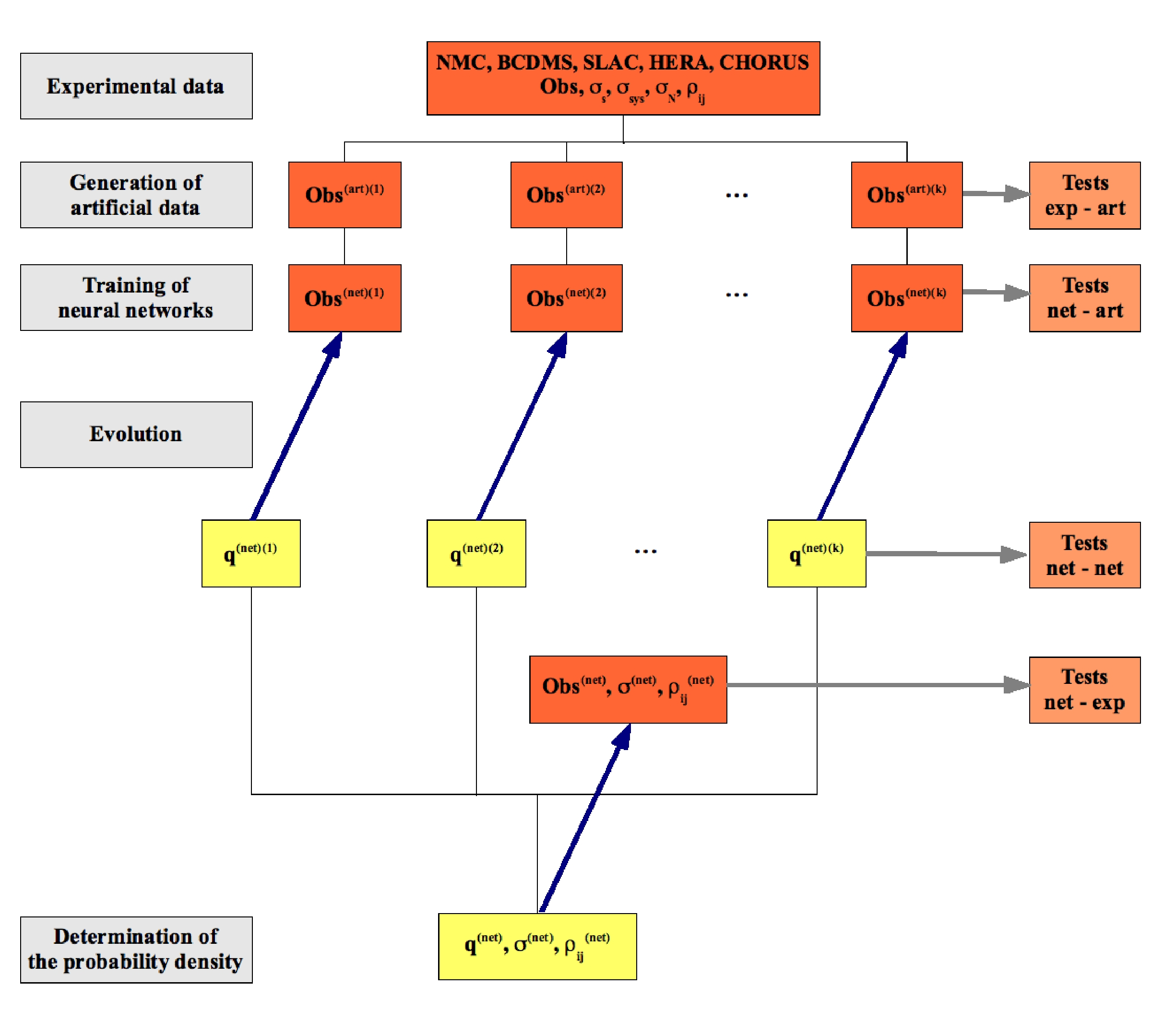 General NNPDF collaboration strategy